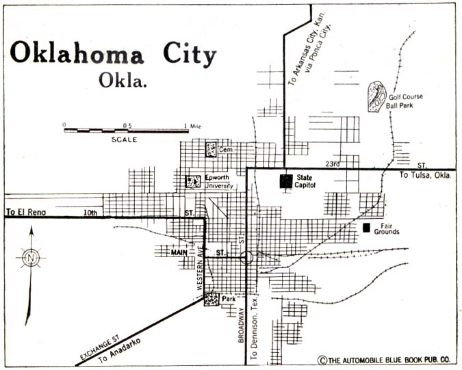 A map of Oklahoma City from 1920 originally listed at